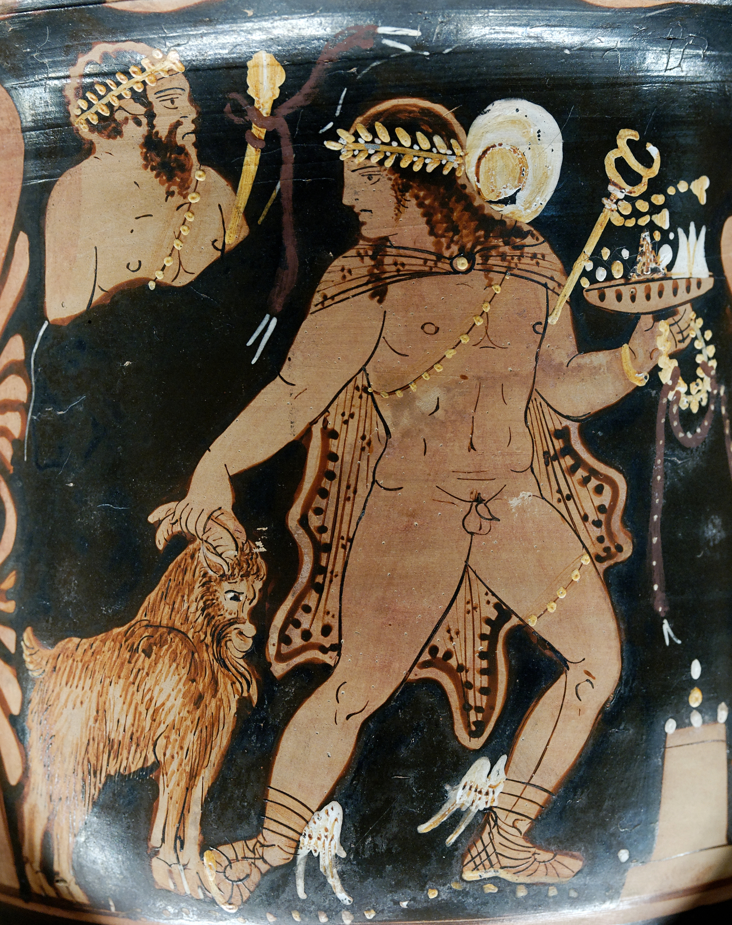 Hermes leads a goat to the sacrifice. Side A of a Campanian red-figure bell-krater.